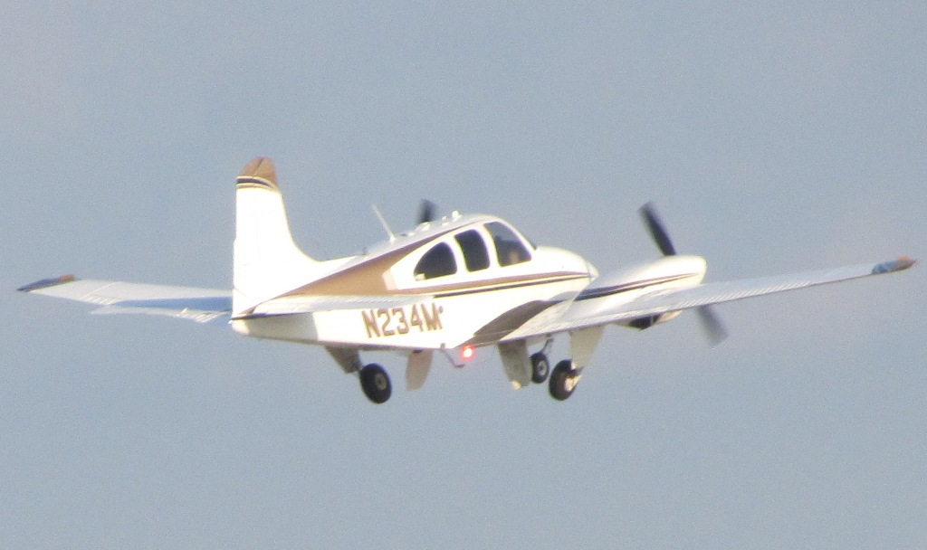 Beechcraft D95